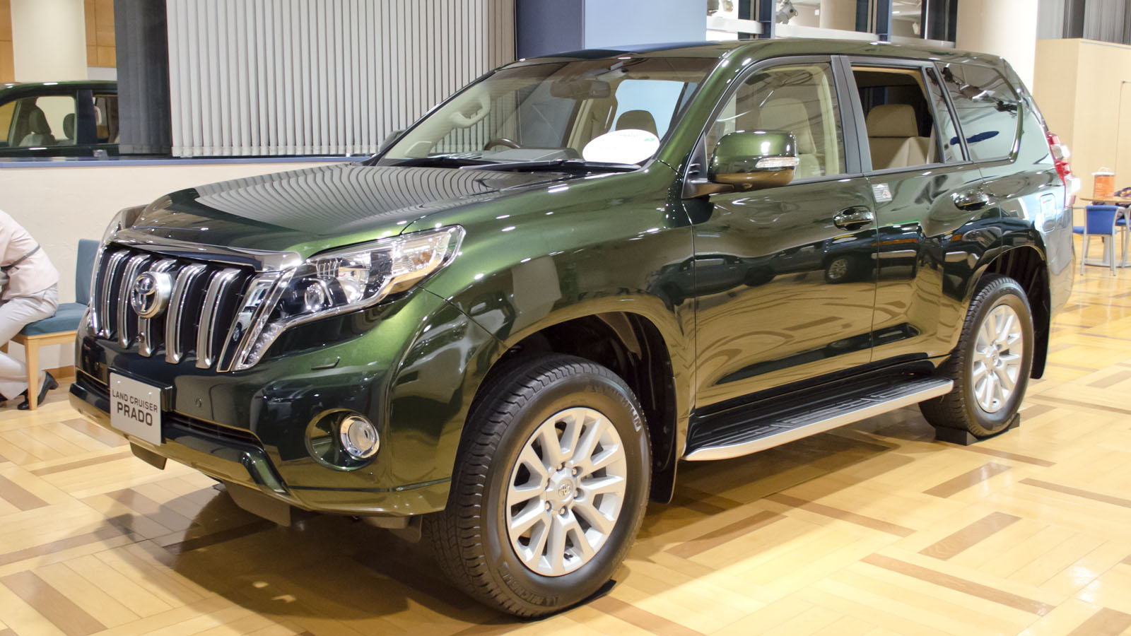 4th generation Toyota Land Cruiser Prado